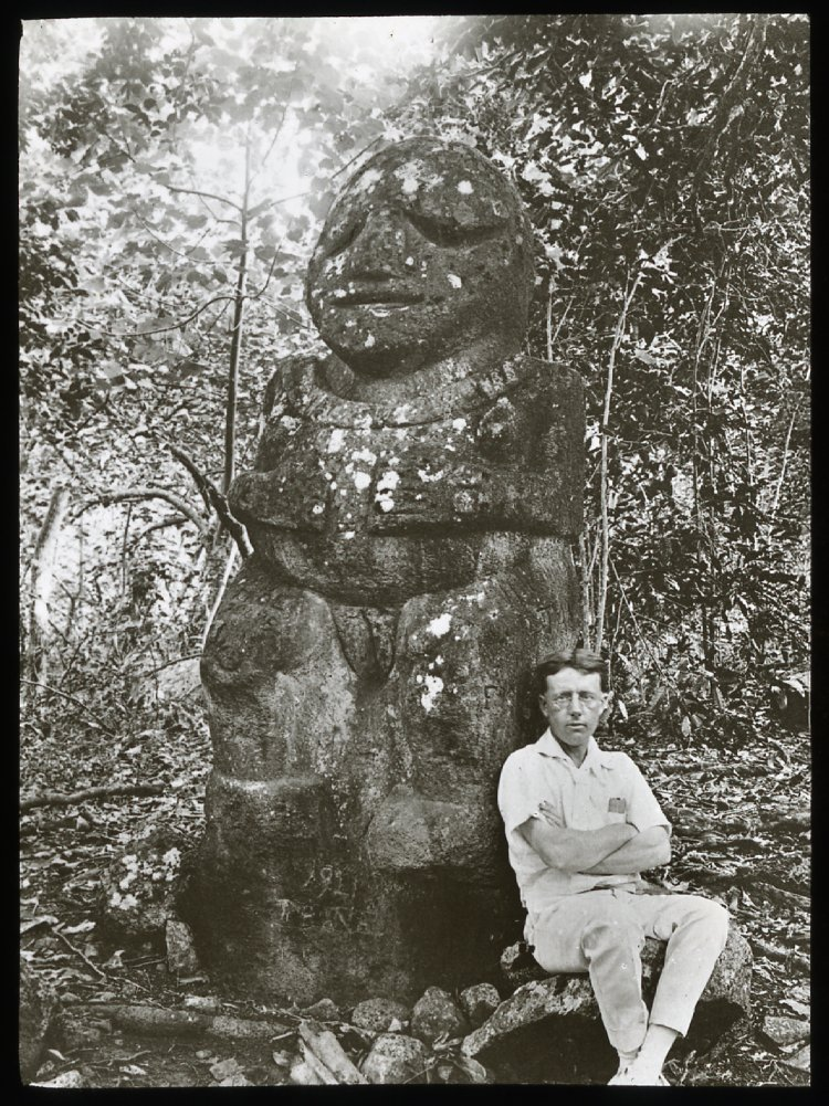 Lantern Slide (black and white); view of a stone anthropomorphic figure statue, surrounded by trees and fauna, and with a White man sitting beside it, for scale, wearing a shot sleeved white shirt, a pair of trousers, and a pair of glasses; Raivavae, Polynesia. Overview of Routledge collection: This collection of lantern slides were photographed during two archaeological expeditions, conducted by William Scoresby Routledge and his wife Katherine Maria Routledge. The majority of the collection was photographed during the ‘Mana Expedition’ in 1913-1915 to Easter Island, which also stopped in Chile and Juan Fernandez Islands on route. Whilst in Chile, Routledge enlisted the aid of Chilean men and boys. One boy from Juan Fernandez is depicted in a number of images, used as a scale guide. Subsequent expeditions to Mangareva, Raivaevae, and Rapa Iti were made in 1921-1923, during which a smaller number of images were made.